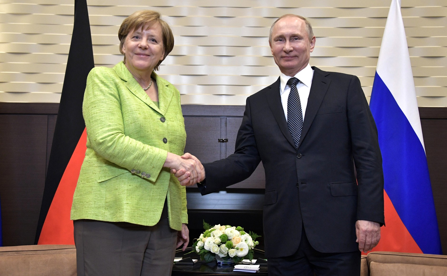 Vladimir Putin received Federal Chancellor of the Federal Republic of Germany Angela Merkel at his Sochi residence